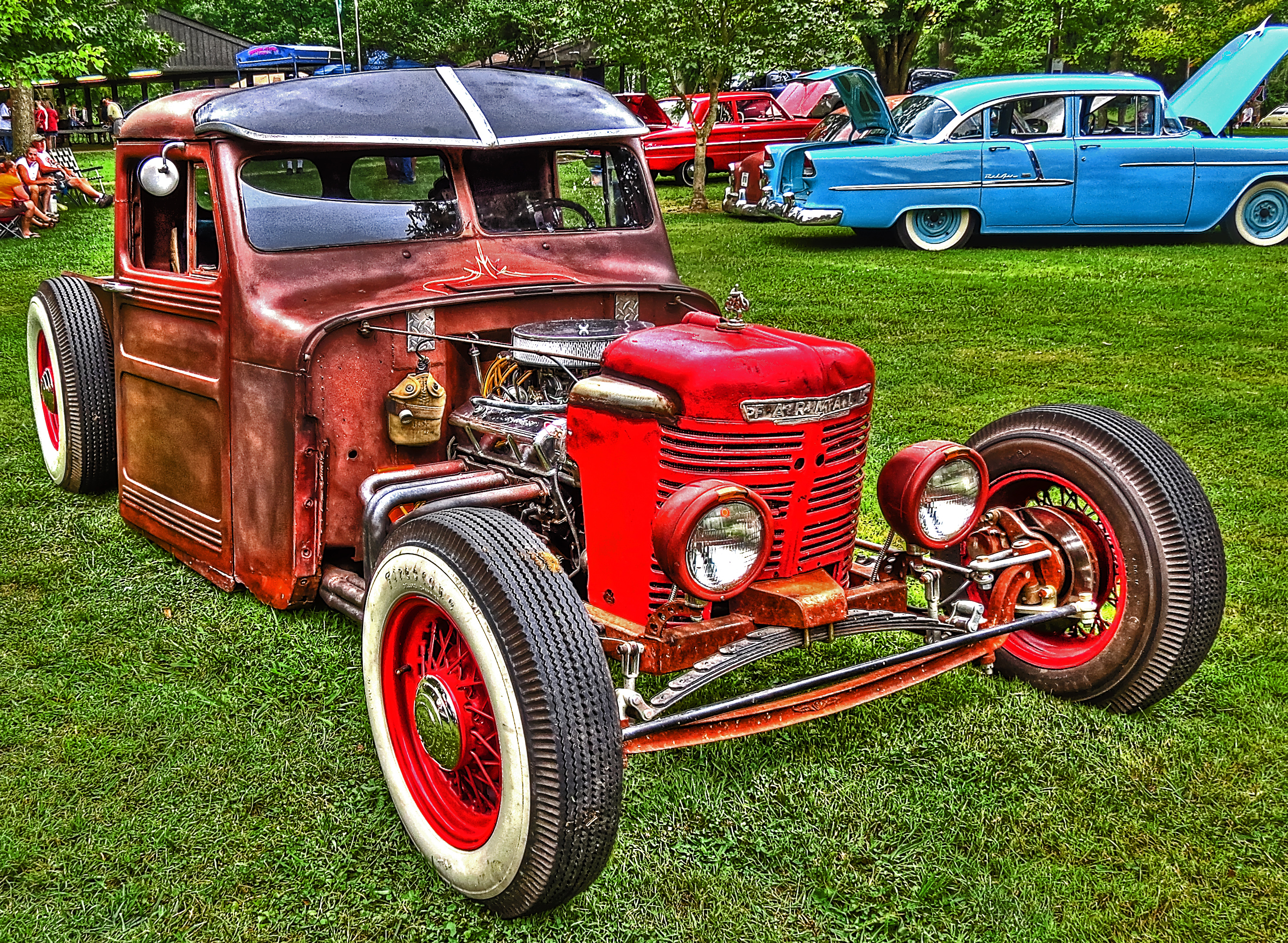 I saw this at Yoctangee Park in Chillicothe, Ohio. Can anyone ID the parts? The front axle looks like Ford.